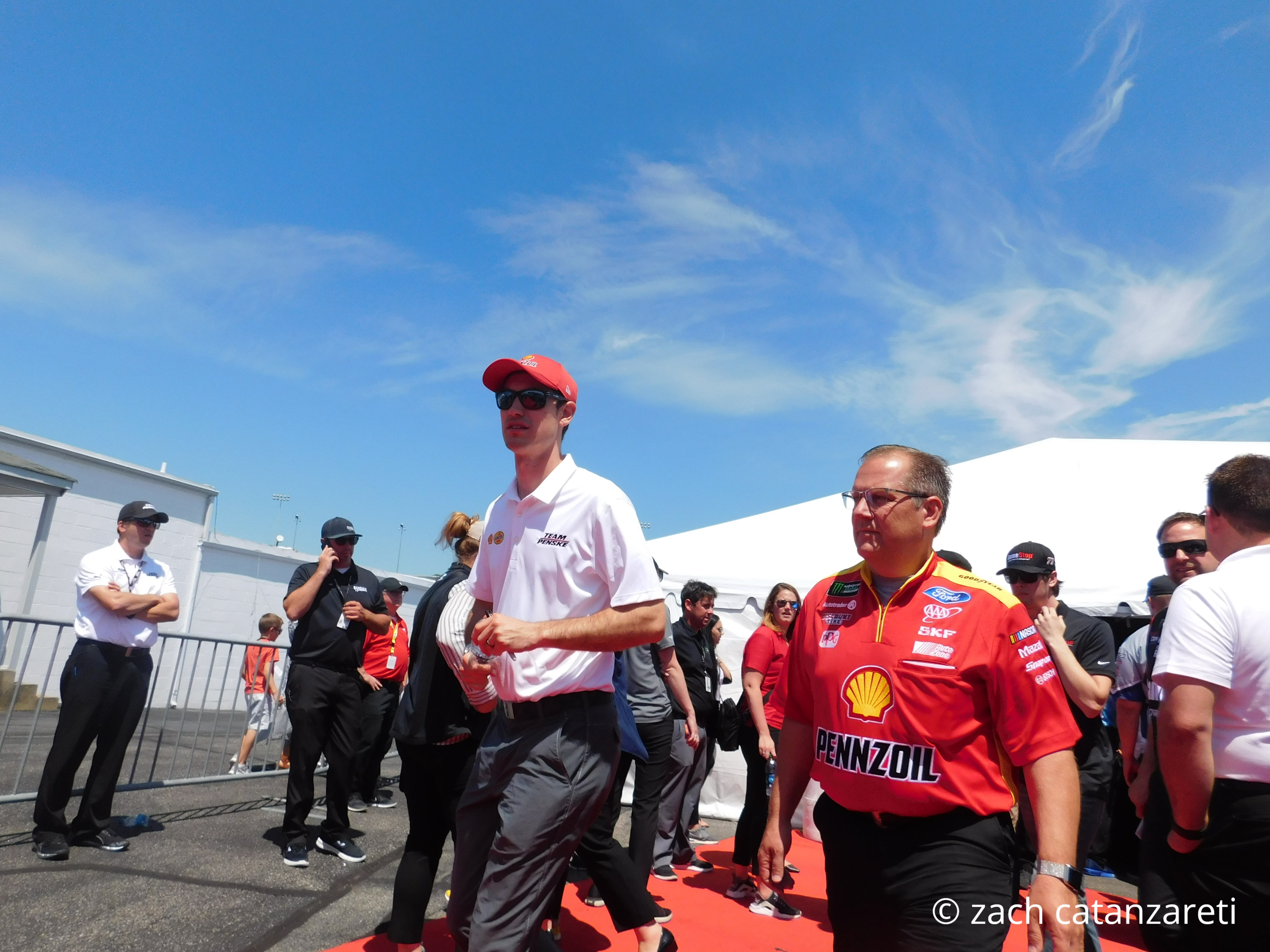 Joey Logano and Todd Gordon at Richmond Raceway in 2017